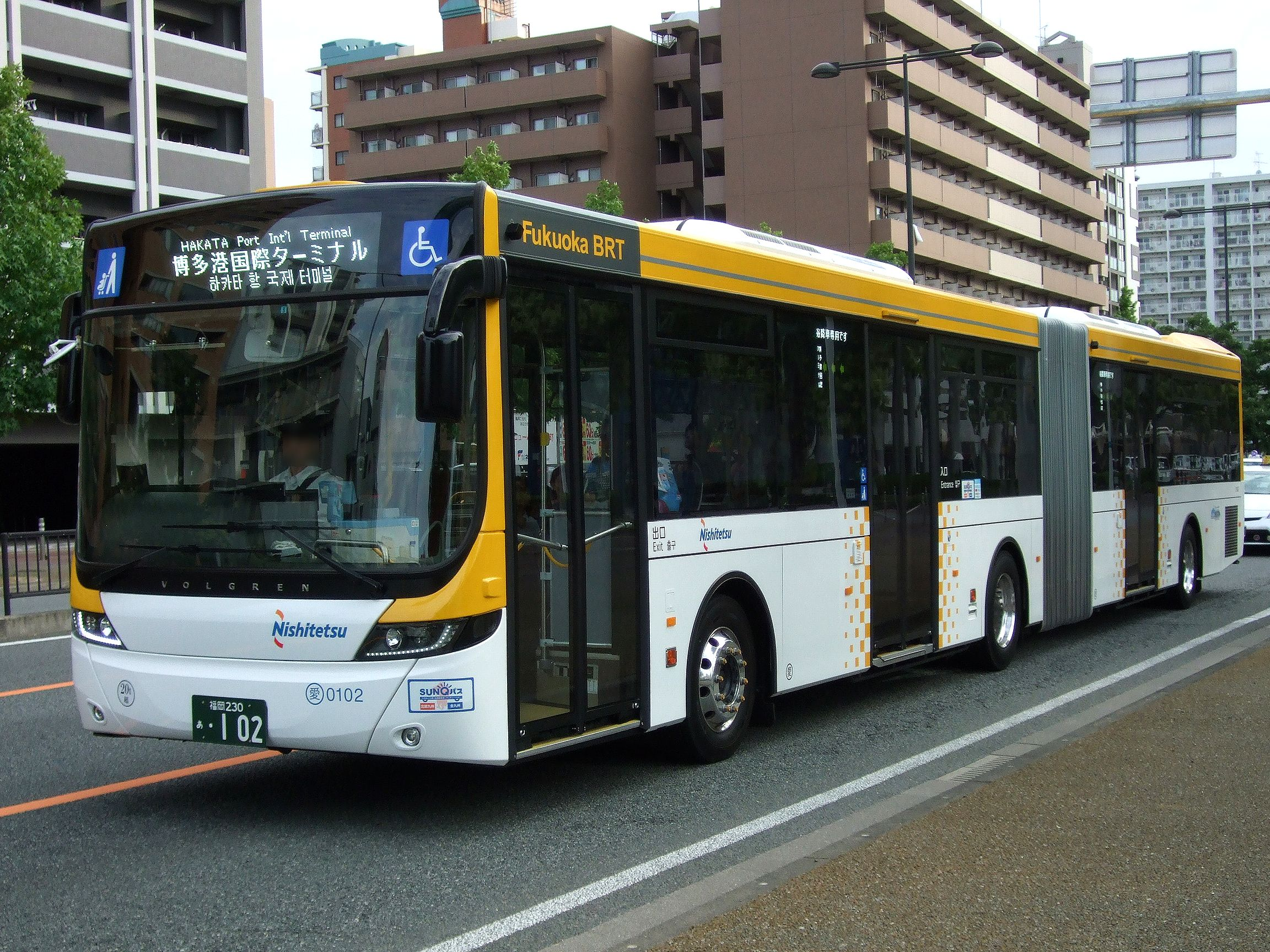 Fukuoka BRT Company:Nishi-Nippon Railroad Use:transit bus Belongs to:Atagohama depot Car license:FOF 230 A 102 Code:0102 Chassis manufacturer:Scania Coachbuilder:Volgren Australia Location:near Fukuoka Convention Center in Hakata Ward, Fukuoka City, Fukuoka, Japan.